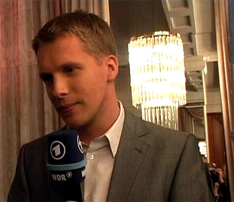 Oliver Pocher as reporter at the press conference of the German nation final of the Eurovision Song Contest 2008.